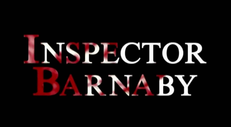 self-made opening credits of the British TV series "Midsomer Murders".